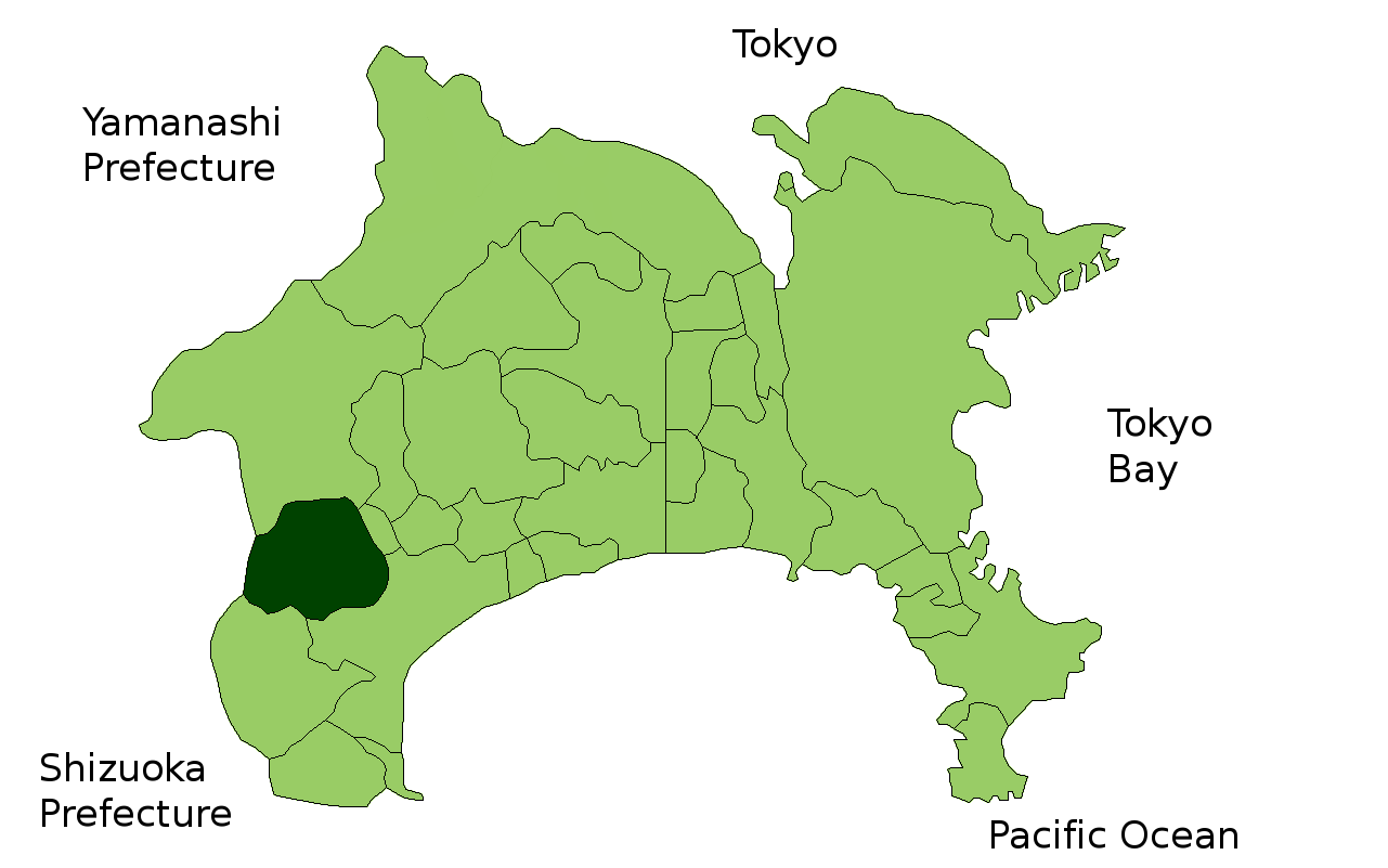 Location Map of Minamiashigara in Kanagawa Prefecture, Japan